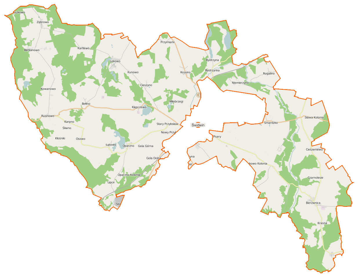 Map of Gmina Świdwin, Poland This map of Świdwin (gmina wiejska) was created from OpenStreetMap project data, collected by the community. This map may be incomplete, and may contain errors. Don't rely solely on it for navigation.